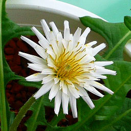 white-flowering Japanese dandelion(Taraxacum albidum Dahlst.) These are weeds,but are uncommonly grown as a gardening kind in Japan.